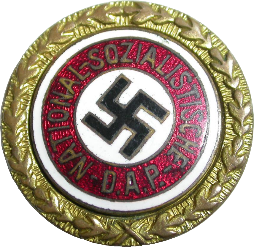 25mm Fuess Badge NSDAP Golden Party Badge